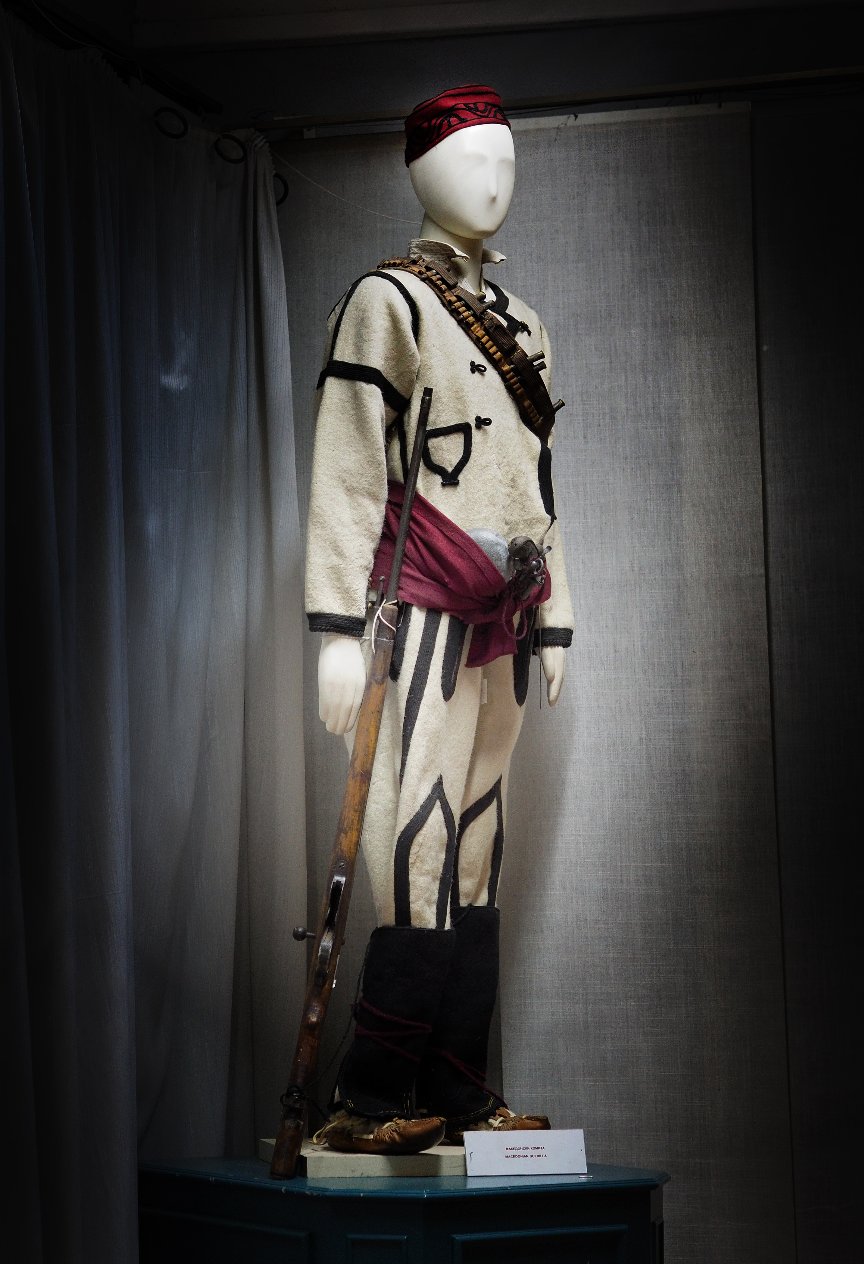 Macedonian Komitadji, Museum Bitola, Macedonia. Српски (ћирилица): Македоснки комита, Народни музеј у Битољу, Македонија This photograph was taken with an Olympus E-M1